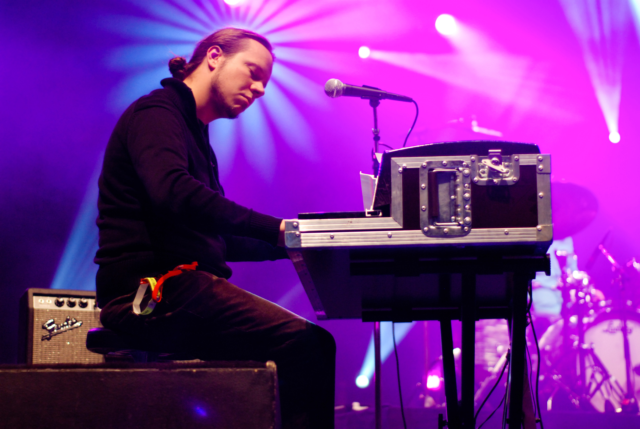 Keyboardist Tuomo Prättälä performing with Emma Salokoski Ensemble at the Ilosaarirock festival on the 15th of July 2007 in Joensuu, Finland.